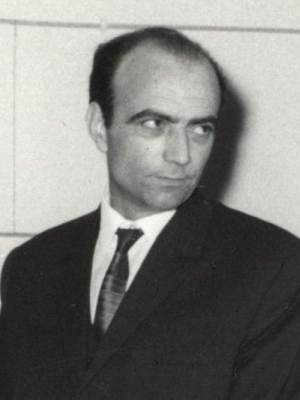 Inventarski broj: 1965 261 144